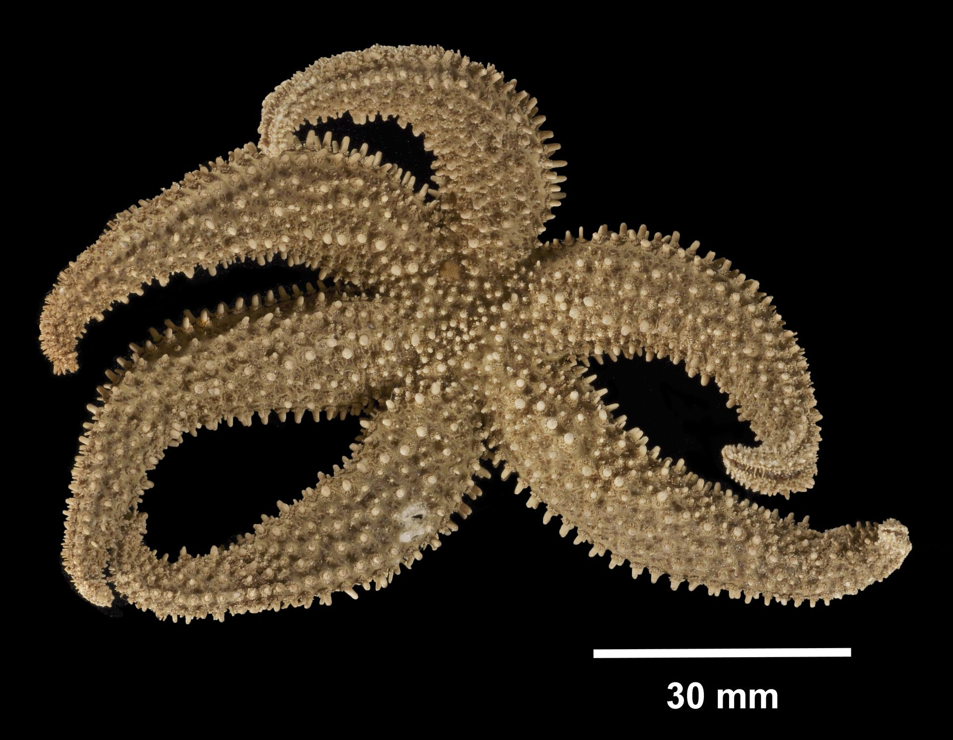 Leptasterias (Hexasterias) coei Verrill, 1914 - Preserved specimen - HYPOTYPE Leptasterias (Hexasterias) coei (YPM IZ 009864.EC). Digital Image: Yale Peabody Museum of Natural History; photo by Eric A. Lazo-Wasem 2015 ; Identified by Eric A. Lazo-Wasem Location Country or area United States of America County Skagway-Yakutat-Angoon Borough Municipality Berg Bay State province Alaska Water body Pacific Ocean